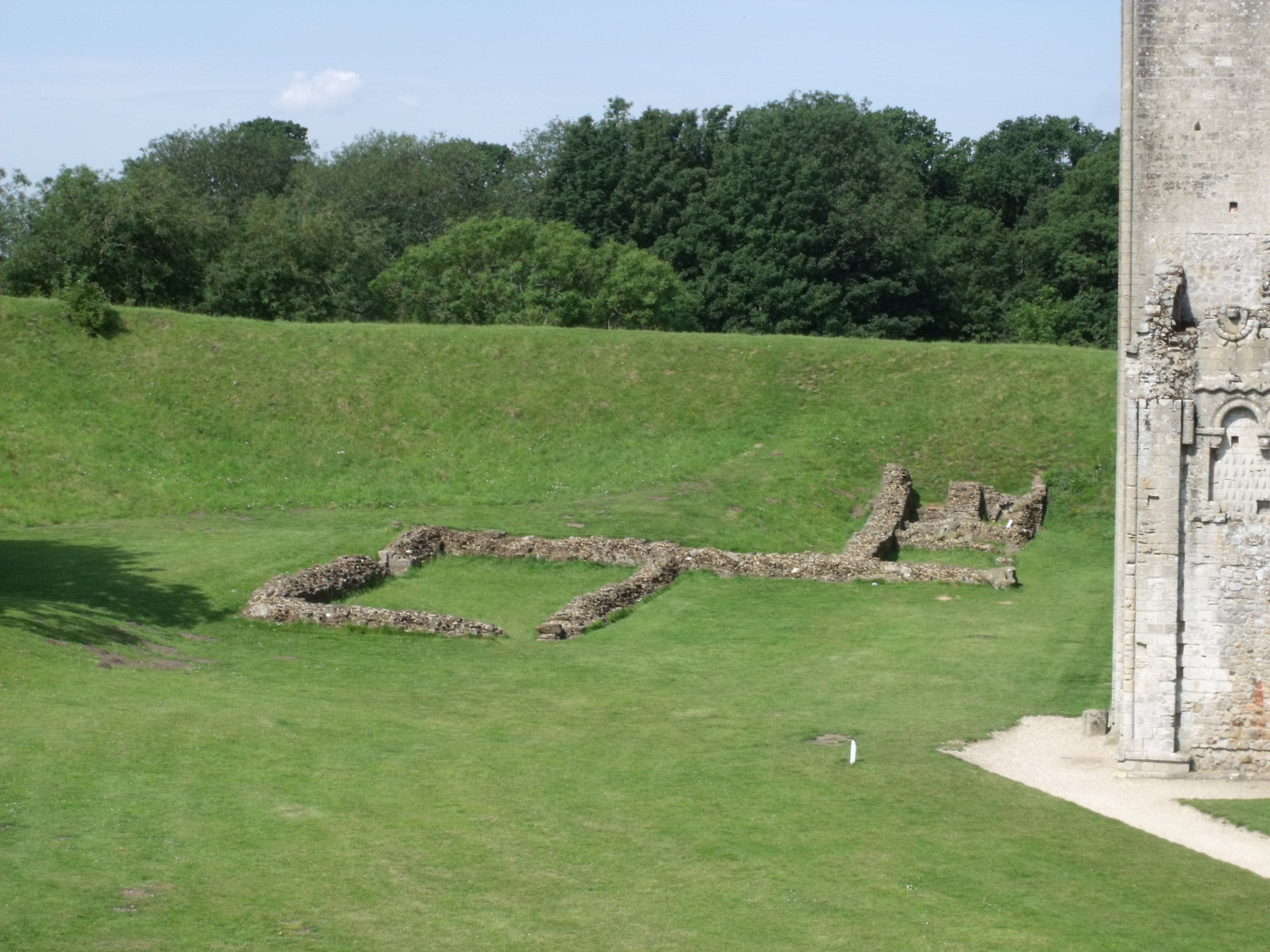 Castle Rising Castle, remains of former outbuildings